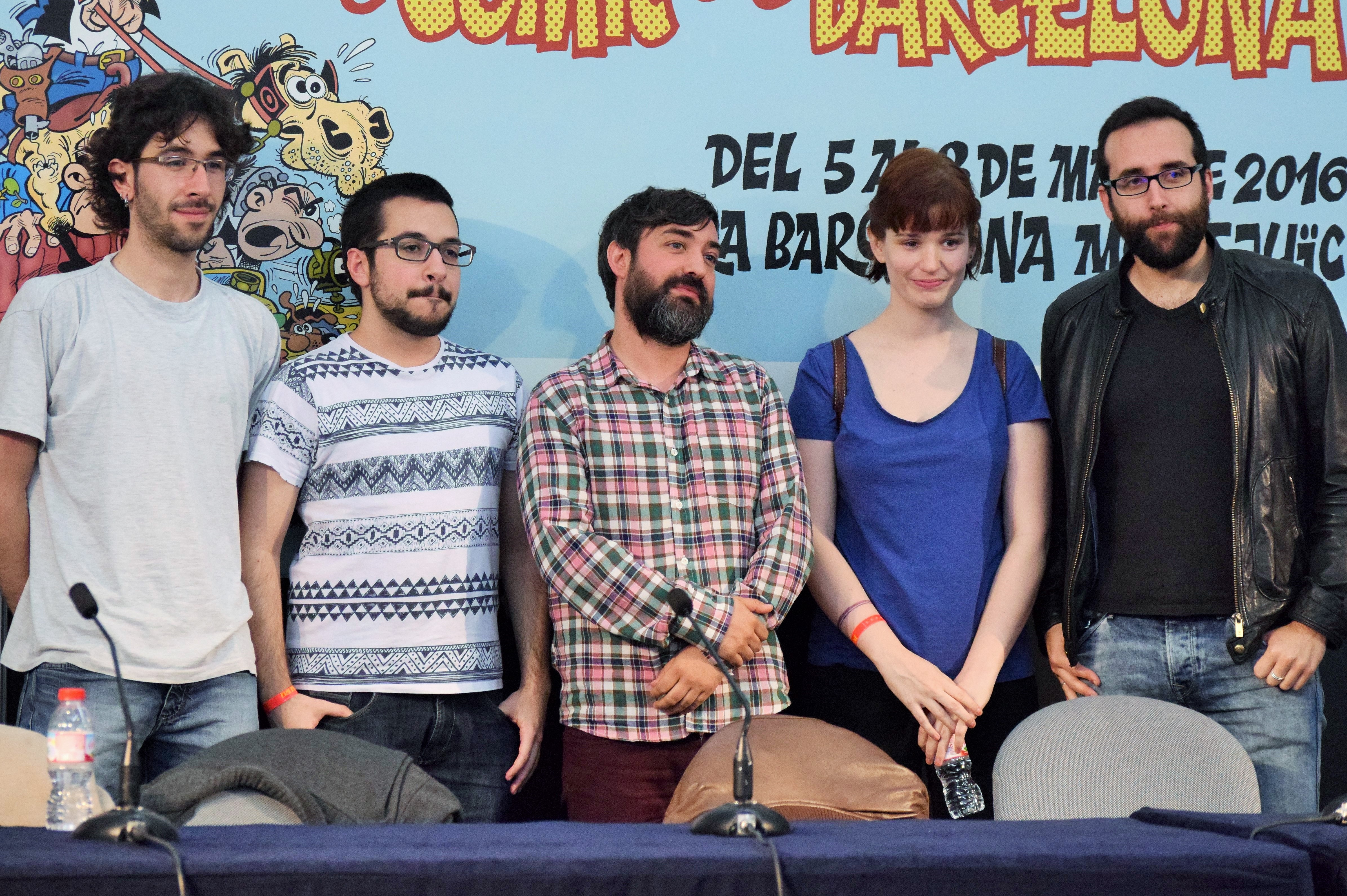 Conference. Meeting with the nominated to the prize to the Best Promising Author (or Best Newcomer Author). Speakers (from left to right): Cristian Robles, Javi de Castro, Jorge Monlongo, Mai Eguruza and Nadar. The journalist Vicent Sanchis moderated the conference. Barcelona Internacional Comic Convention. Friday 6 may 2016.